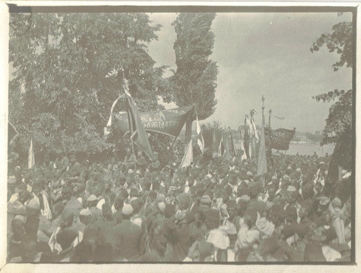 Bulgarian flag of IMARO during the Young turks revolution